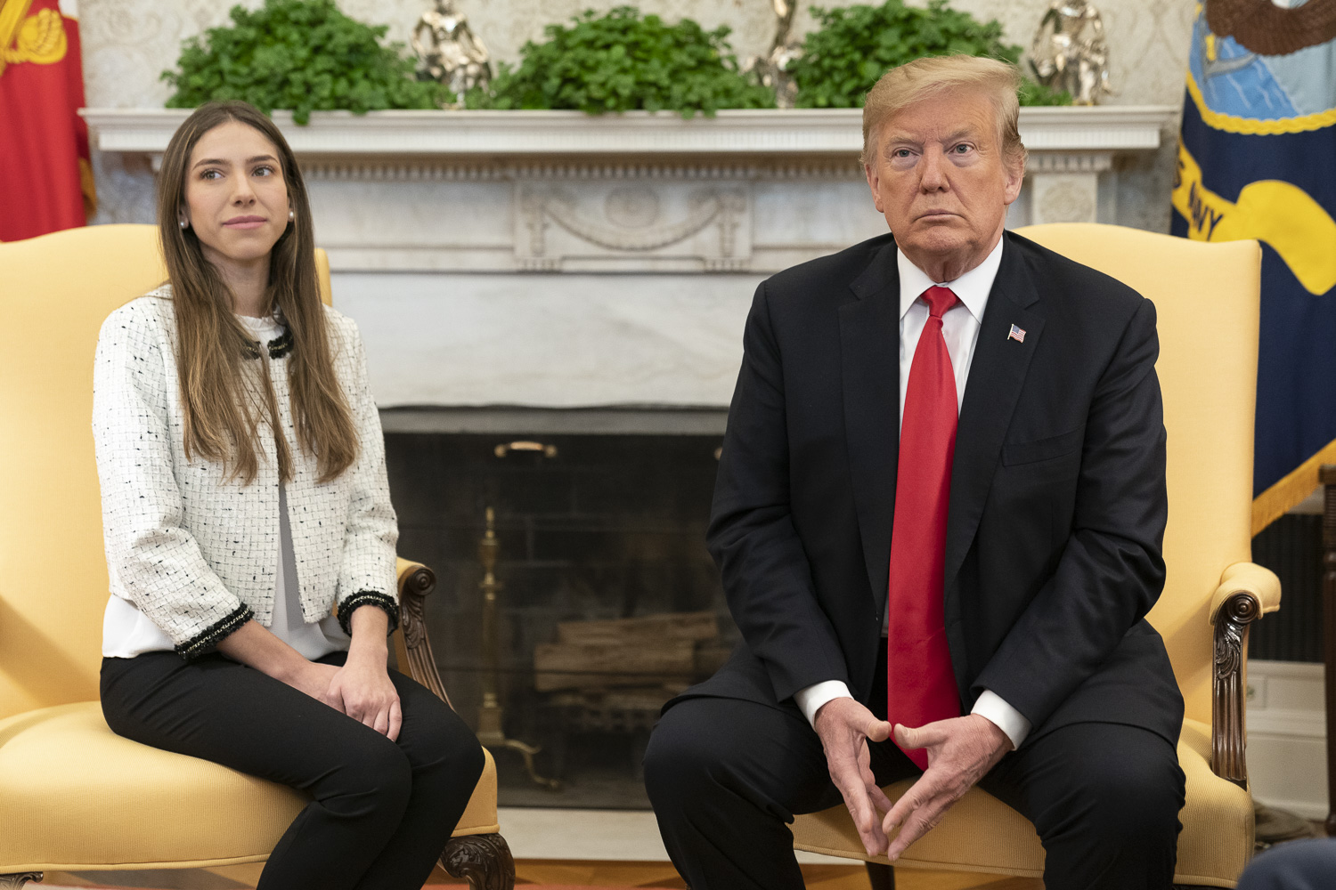 President Donald J. trump meets with Fabiana Rosales de Guaido, the First Lady of the Bolivarian Republic of Venezuela, Wednesday, March 27, 2019, in the Oval Office of the White House. (Official White House Photo by Shealah Craighead)